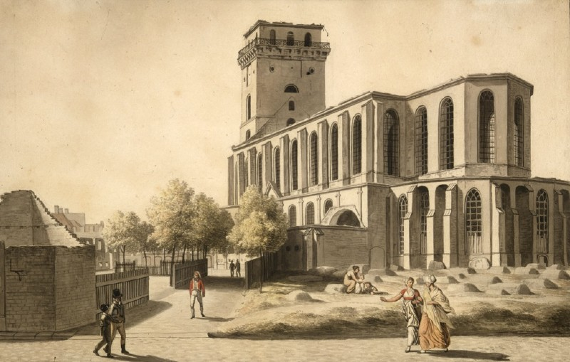 Vor Frue Kirke with Dyrkøb in the foreground in Copenhagen, Denmark